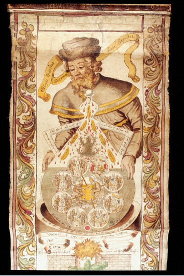 Alchemist holding a flask. From Western Manuscript 693. Rotulum hieroglyphicum G. Riplaei Equitis Aurati. (An alchemical manuscript of the 16th century, showing the processes for the production of the philosopher's stone in pictorial cryptograms. 1st cryptogram. Archives & Manuscripts Keywords: 16th century; wms 693; ms 693; ripley scroll; Alchemy; philosopher's stone